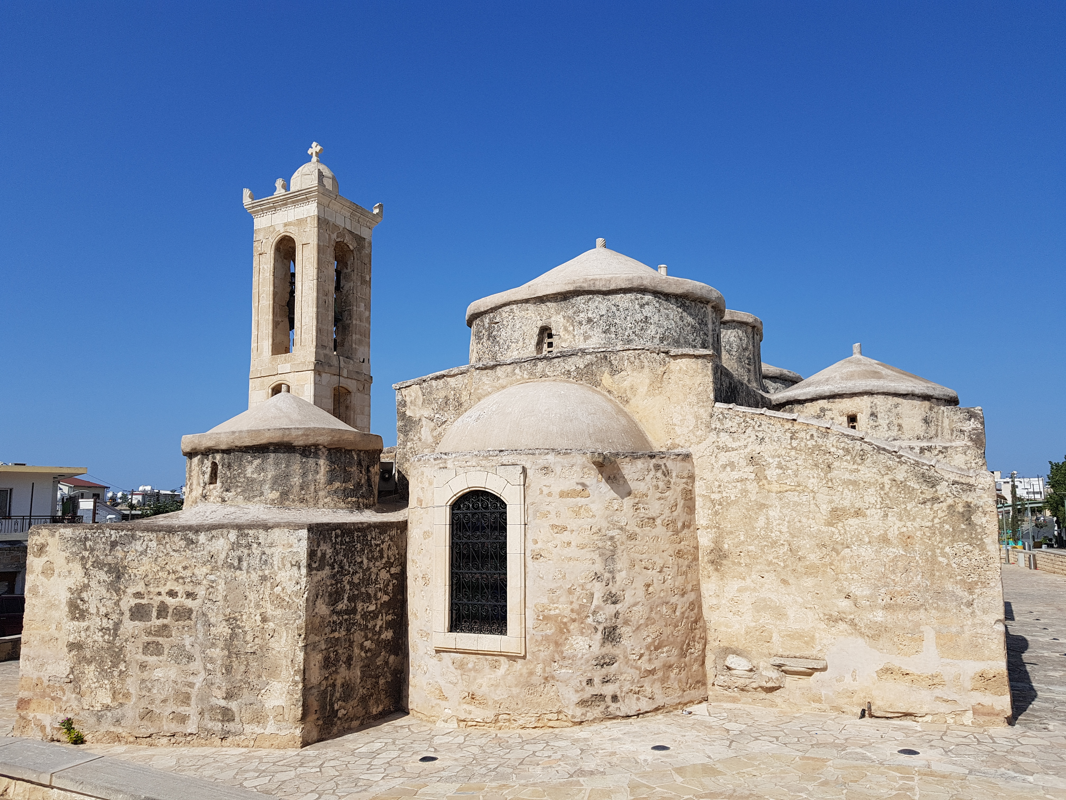 the church of Agia Paraskevi in Yeroskipou